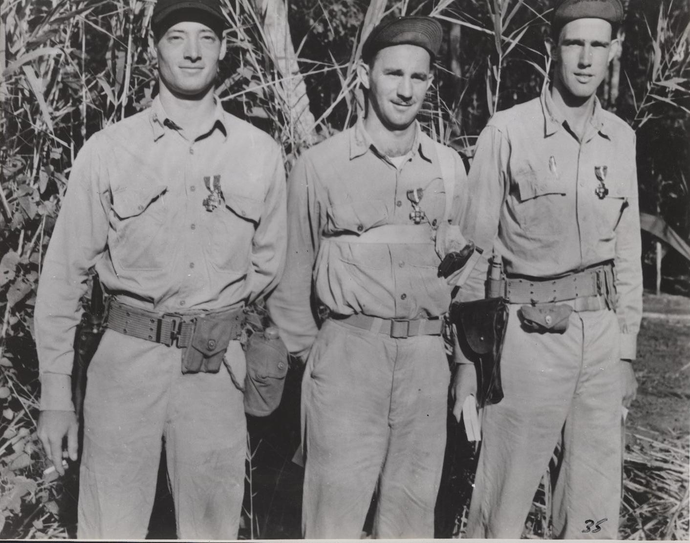 These three Marine aviators were responsible for shooting down 46 Japanese fighters over Guadalcanal. From left to right: Major John L. Smith, Major Robert D. Galer, and Captain Marion E. Carl pose for a photo after being awarded Navy Crosses for their actions. Major Smith would later be awarded the Medal of Honor. From the Thayer Soule World War II Photograph Collection (COLL/3271) at the Marine Corps Archives & Special Collections.